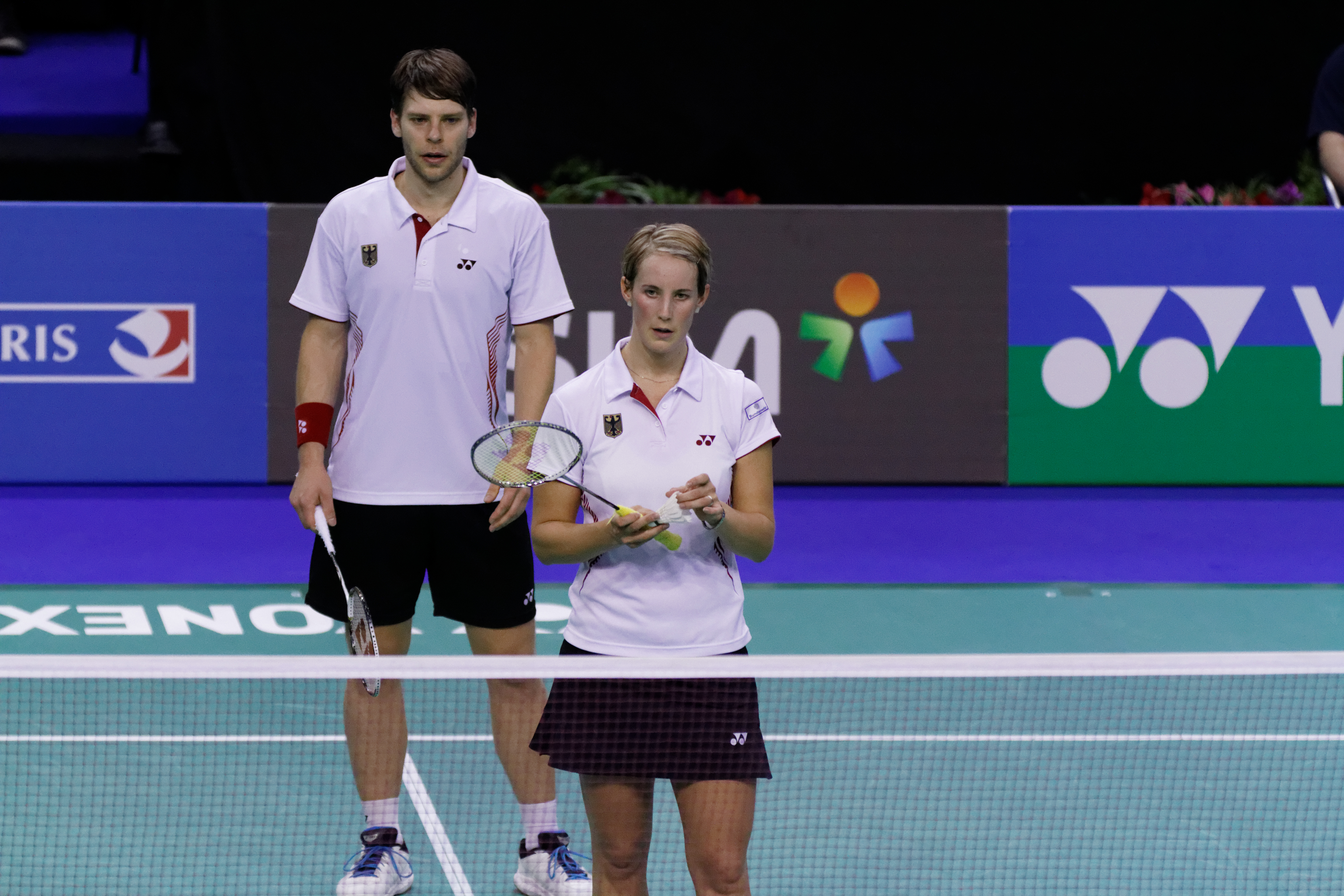 2013 French open. Mixed's doubles eightfinal. Michael Fuchs and Birgit Michels vs Sudket Prapakamol and Saralee Thungthongkam.